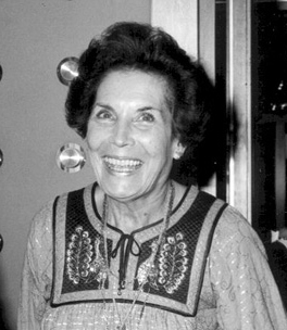 Hortensia Bussi de Allende at a reception given by the President of the International Progress Organization at the Sheraton Hotel in Brussels (28 September 1984)